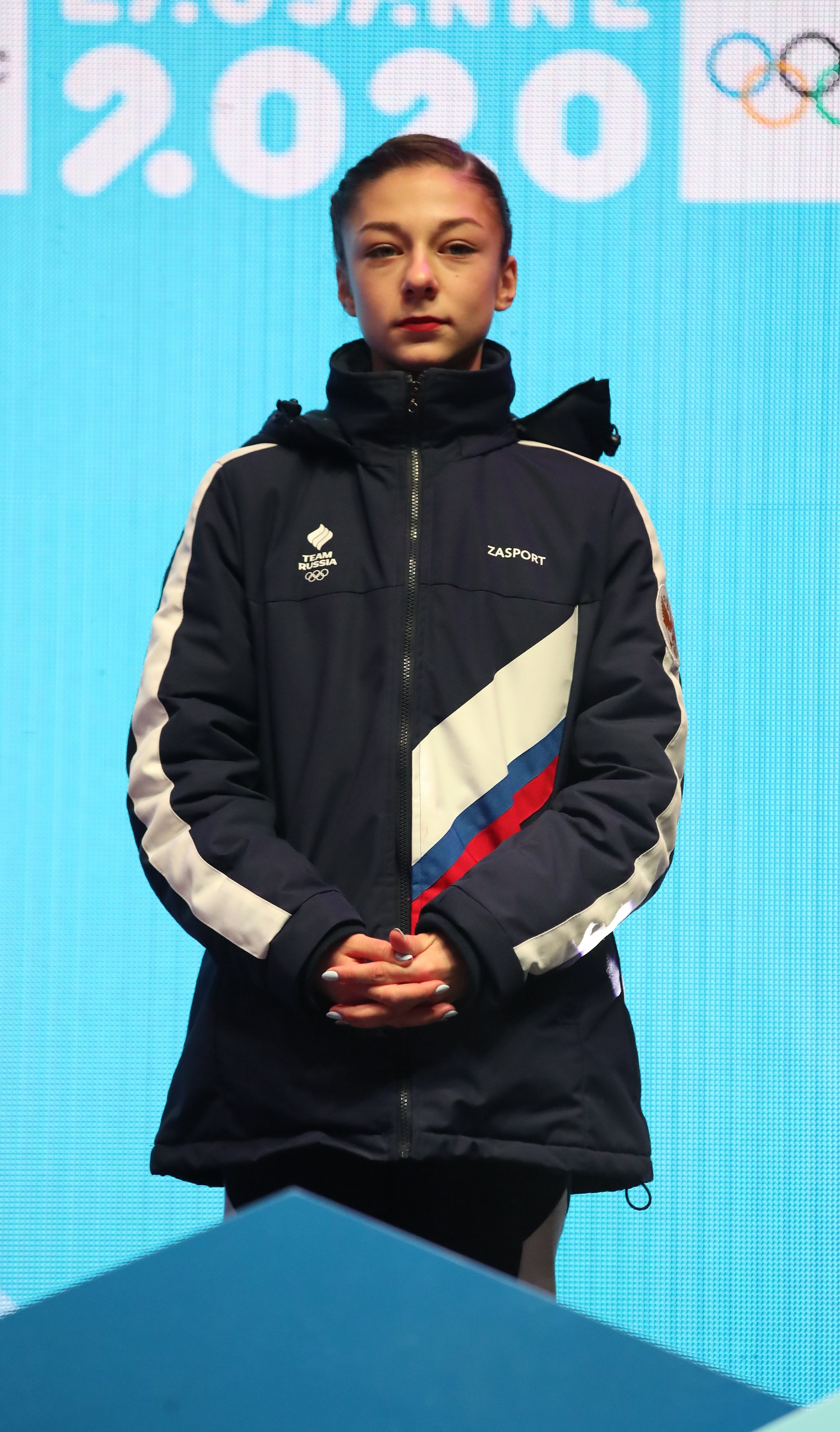 Medal ceremony of Figure skating – Women's Single Skating at the 2020 Winter Youth Olympics in Lausanne on 13 January 2020.